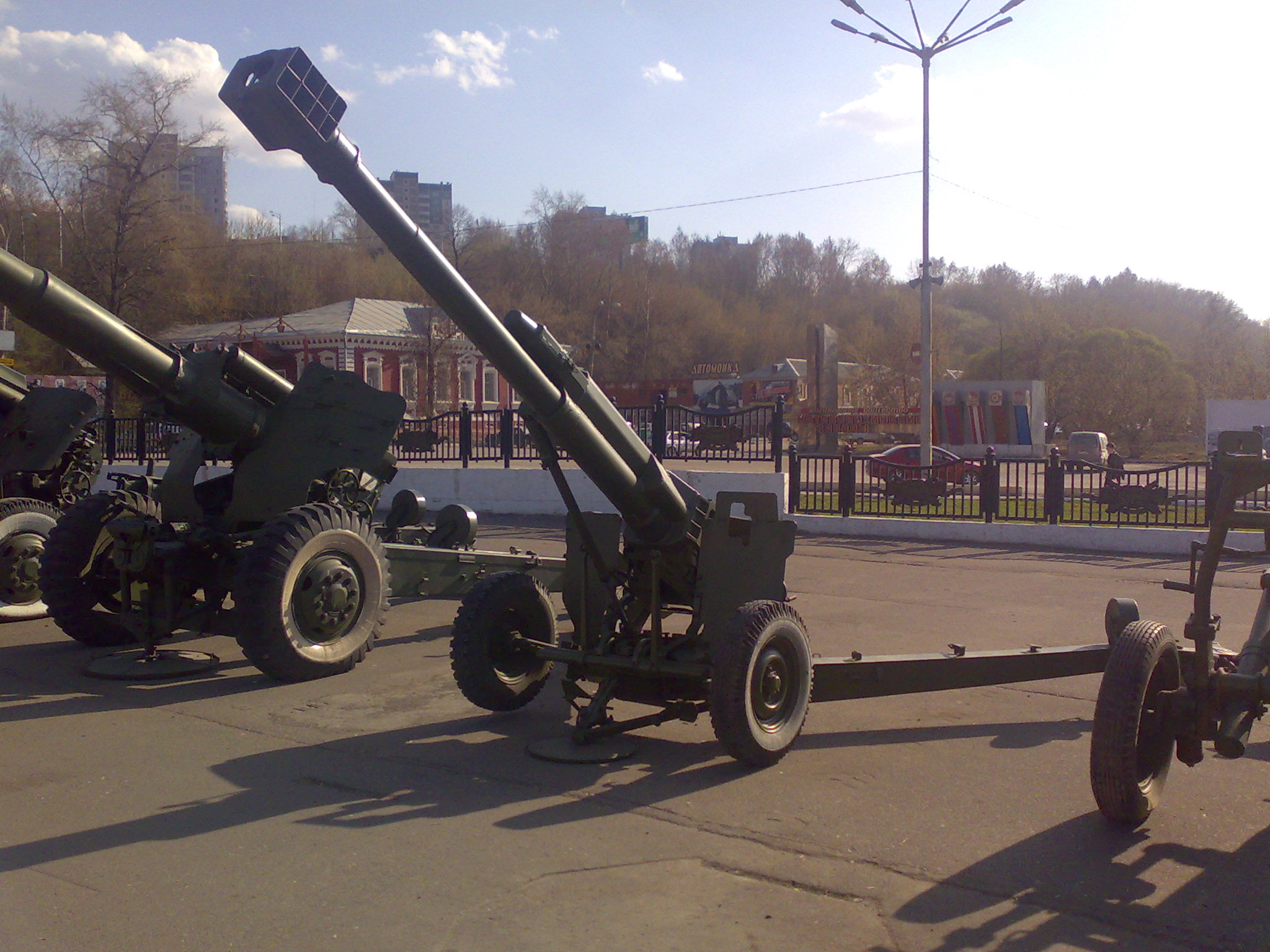 120-mm gun-howitzer-mortar. Motovilikha Plants museum in Perm. Russia.